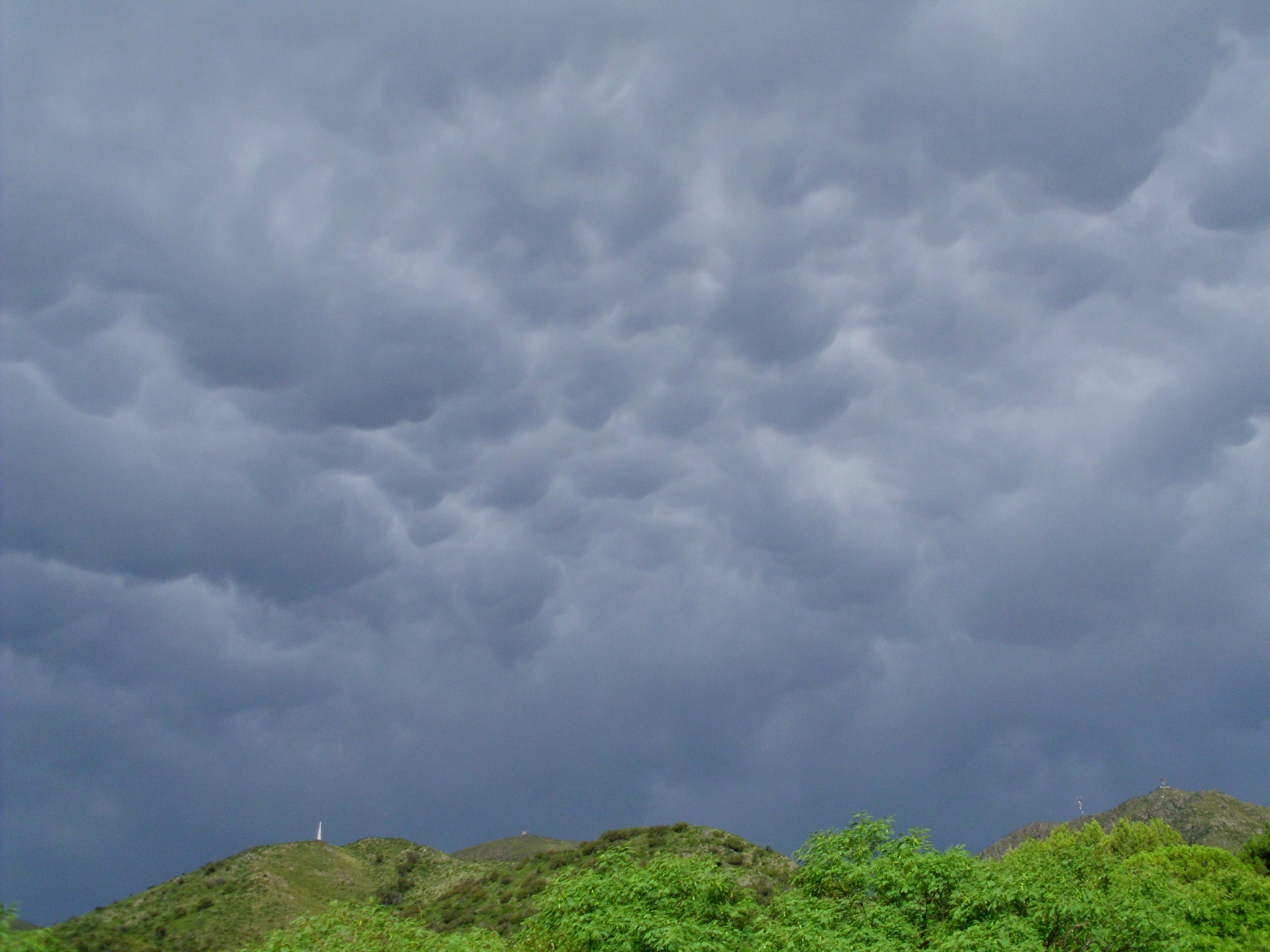 Mammatus clouds over the mountains. Summer 2013. Photography taken in Los Cocos, Sierras Chicas Mountains, córdoba, Argentina.